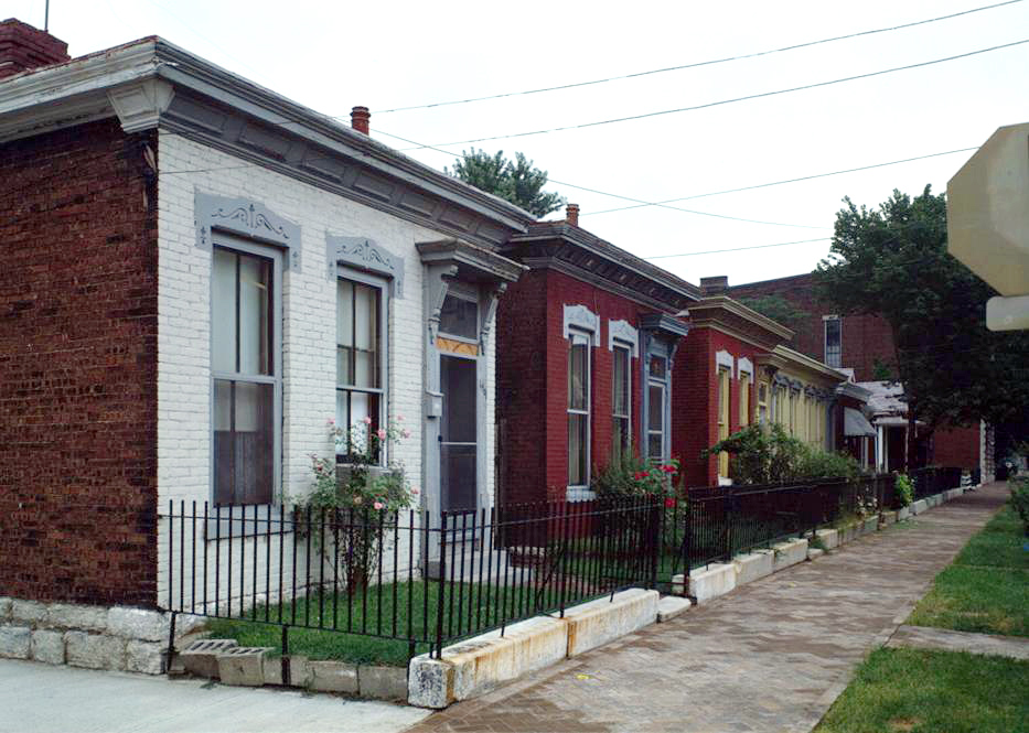 Shotgun houses starting at 1401 East Washington Street in Louisville, Kentucky.